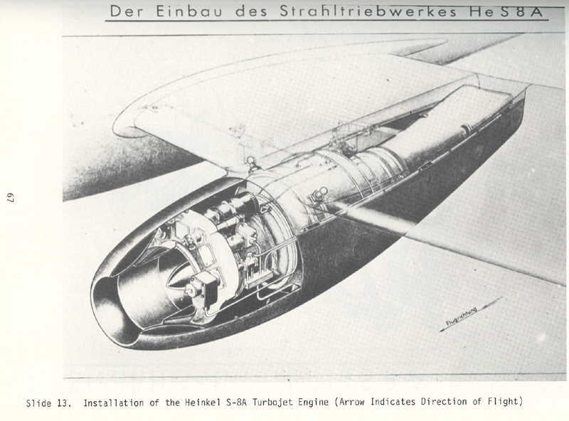 Heinkel He S-8A